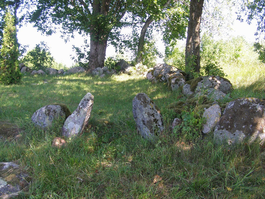 Daukšiai, Skuodas district, Lithuania